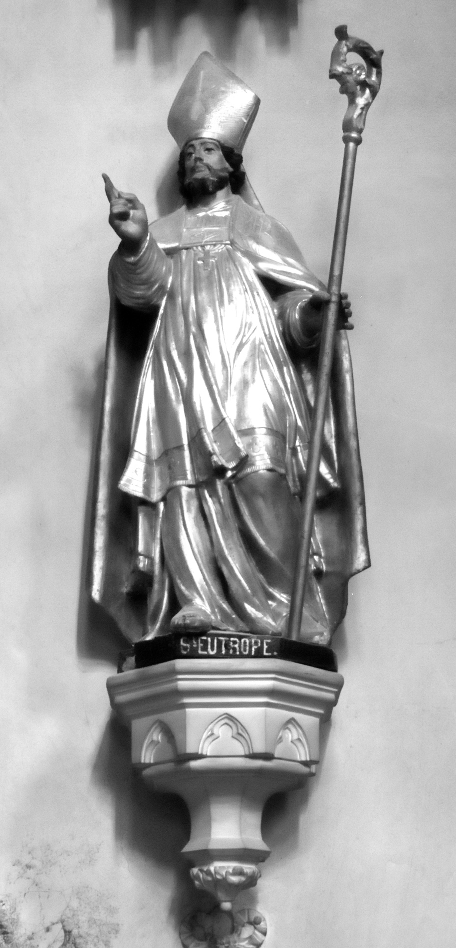 Saint-Eutrope church : Statue of saint-EutropeClermont-Ferrand, Puy-de-Dôme, France Translations in other languages are welcome.